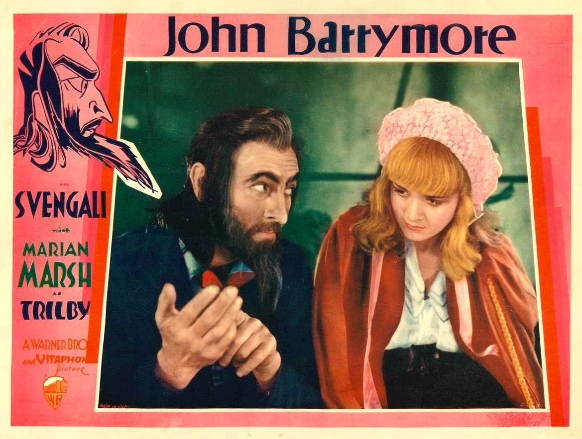 Lobby card from the 1931 film Svengali.